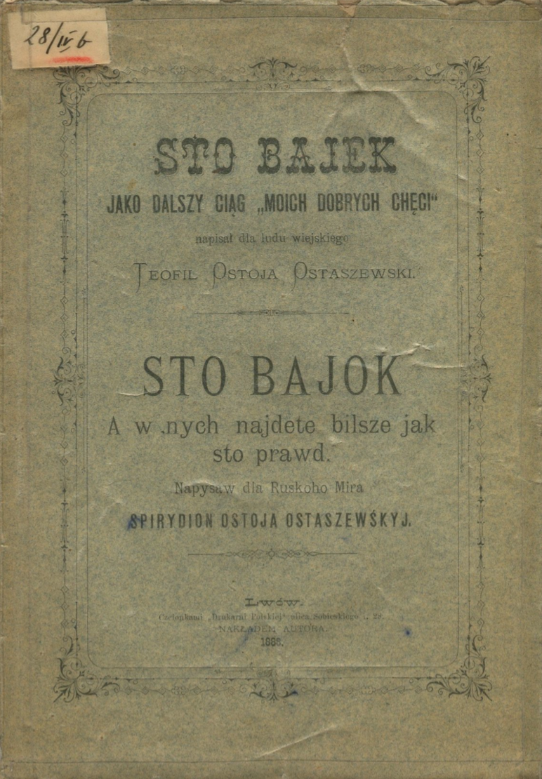 Book cover in Polish from 1888: Teofil Ostoja Ostaszewski, "Sto bajek", Spirydion Ostoja Ostaszewski, Sto bajok"